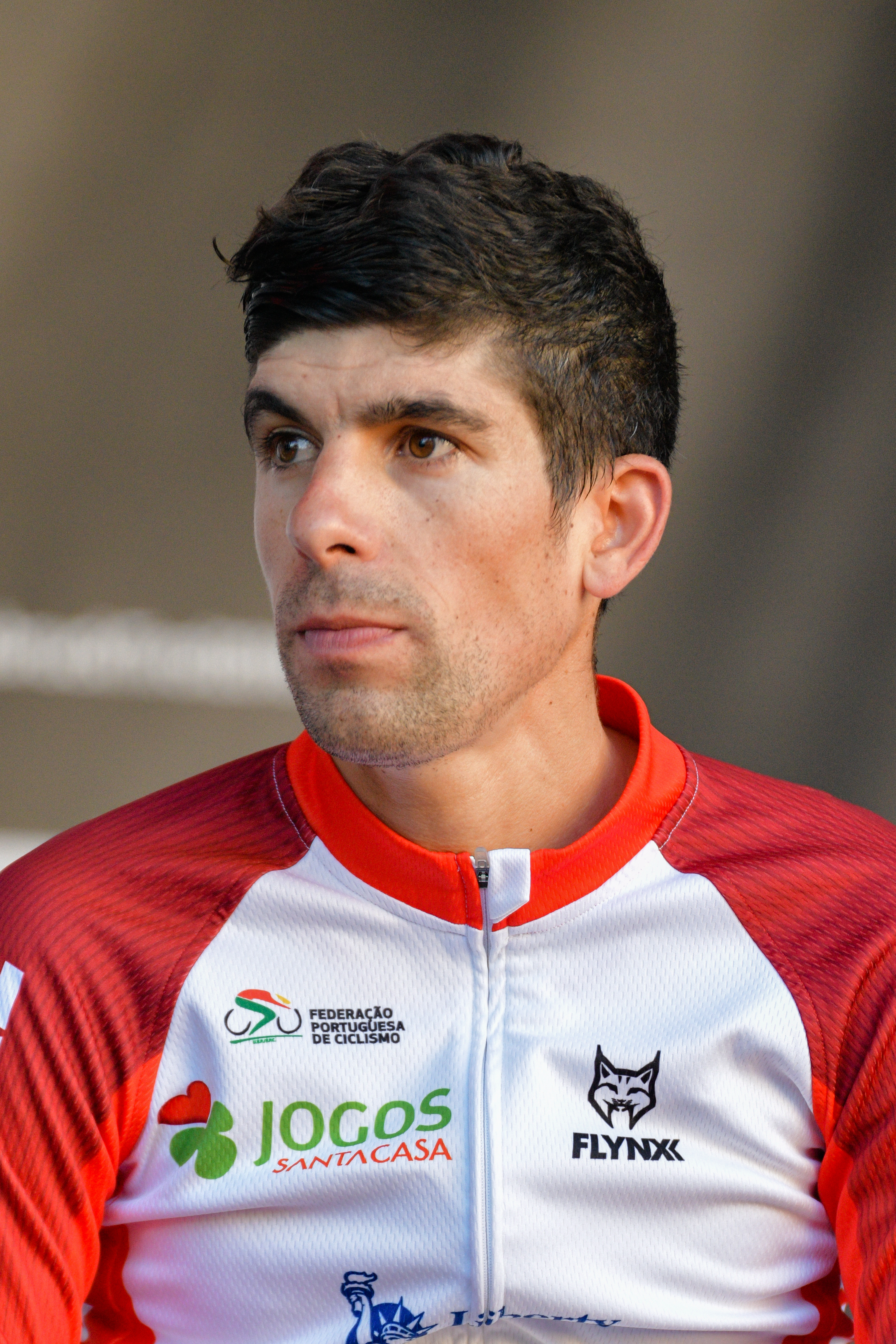 2018 UCI Road World Championships Innsbruck/Tirol Men's Individual Time Trial. Picture shows: Nelson Oliviera of Portugal